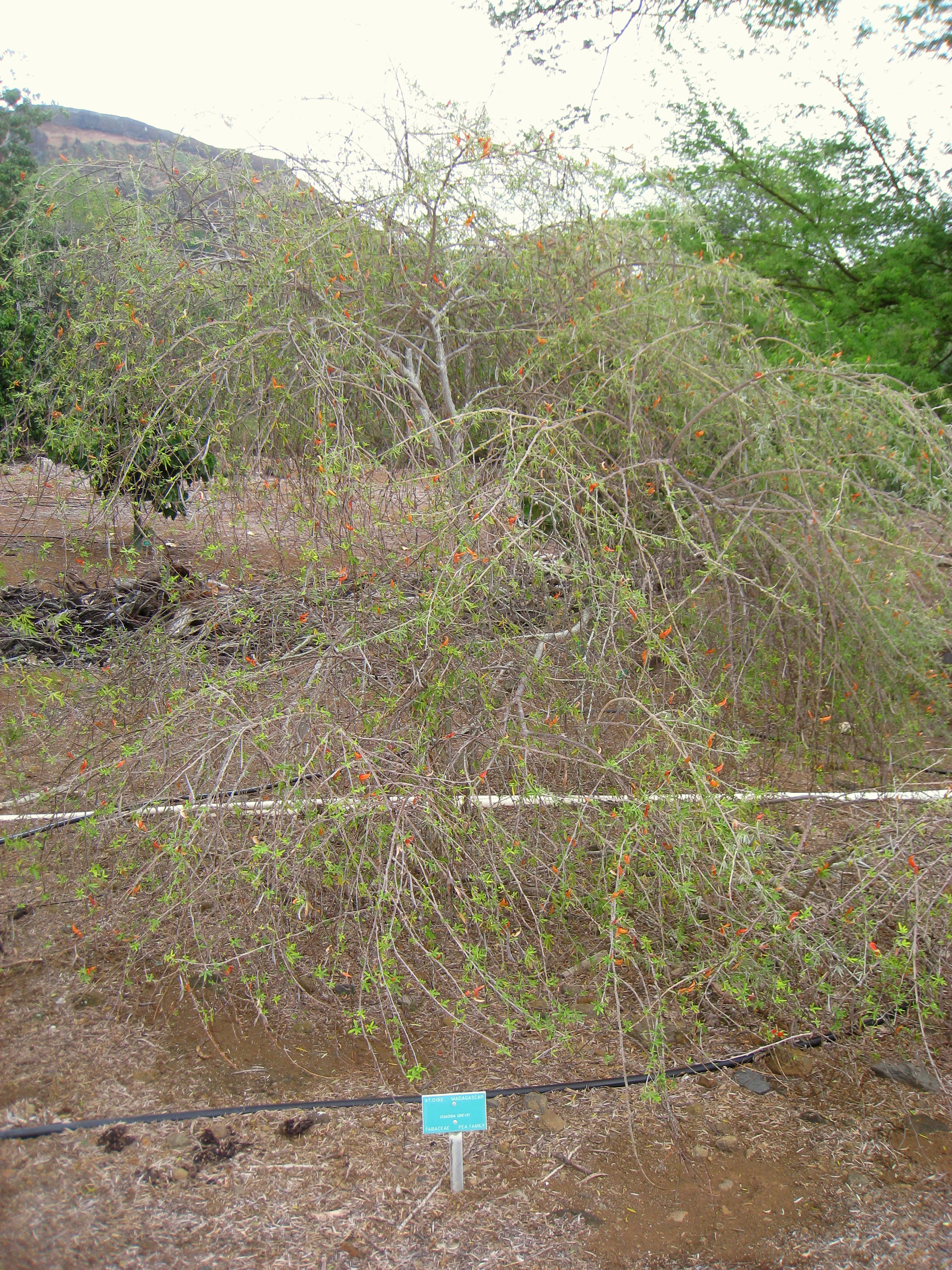 Chadsia grevei in Koko Crater Botanical Garden, Honolulu, Hawaii, USA.